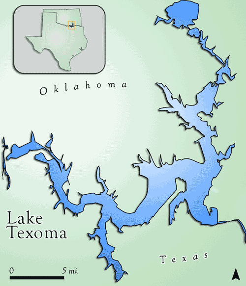 Map of Lake Texoma. Drawn from satellite imagery.